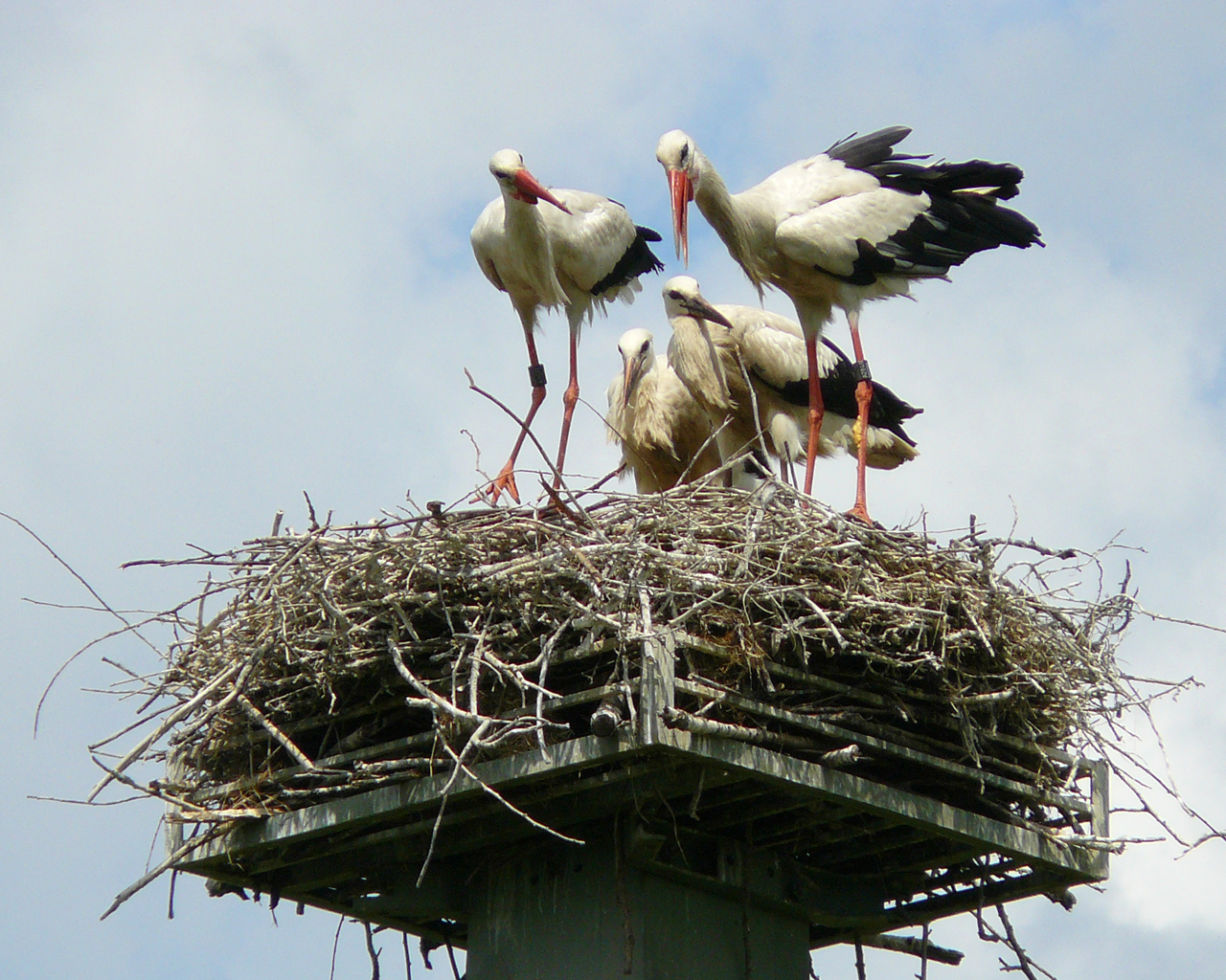 White stork family shortly after one of the adults is arrived